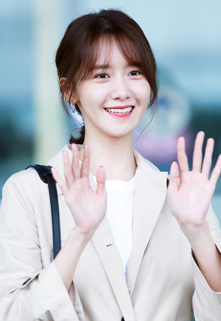 Im Yoon-ah on May 2, 2018.